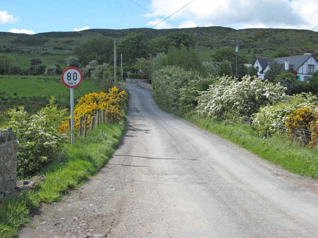 The Irish Border between Northern Ireland and Ireland on Killeen School Road in Killeen, County Armagh, in Northern Ireland. The only indication that one is crossing into the Republic of Ireland is the speed limit sign expressed in kilometres per hour. The Cooley Mountains are in the background.